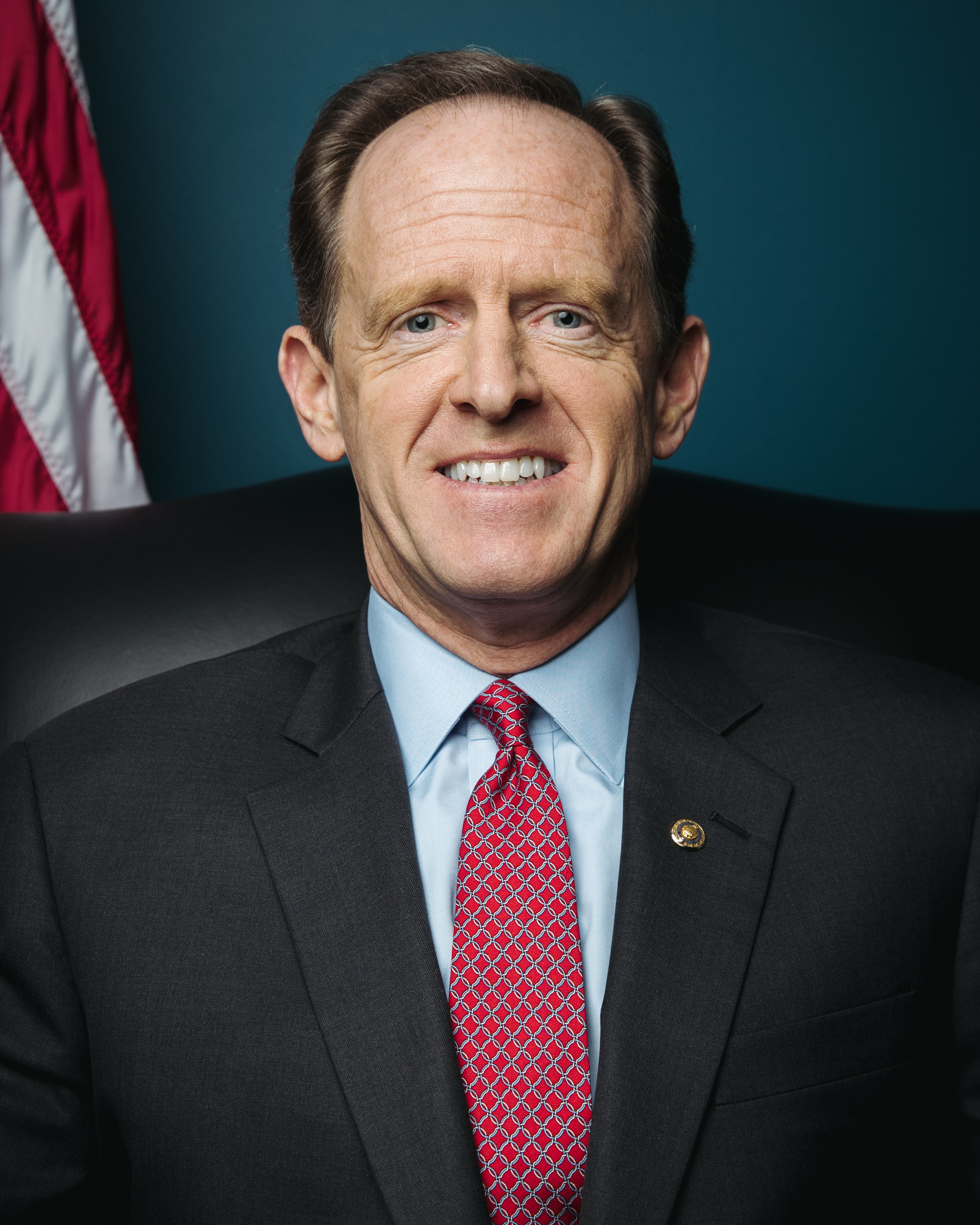 Pat Toomey official photo, 2018